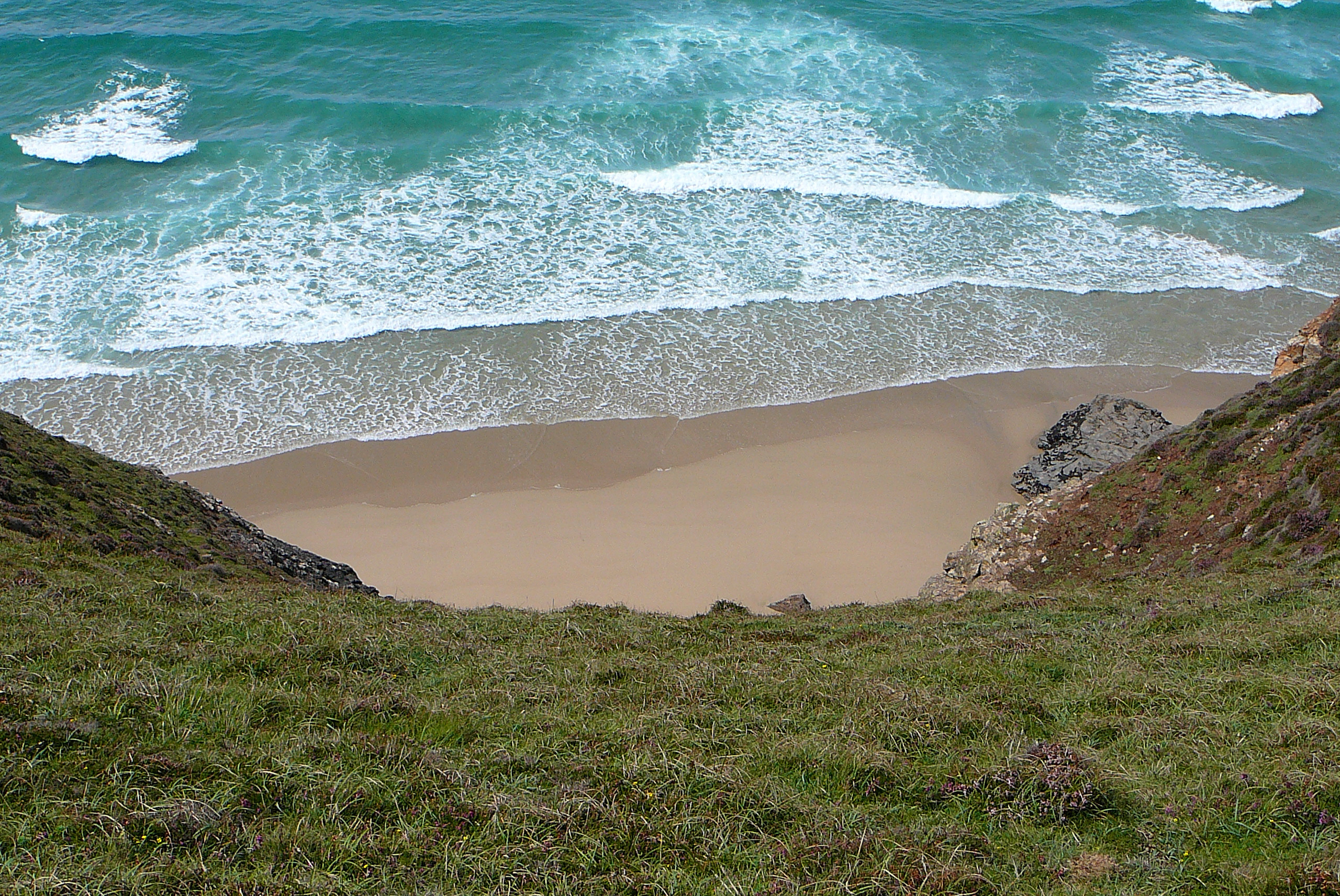 near Chapel Porth, Cornwall